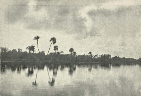 A typical scene upon this beautiful river.